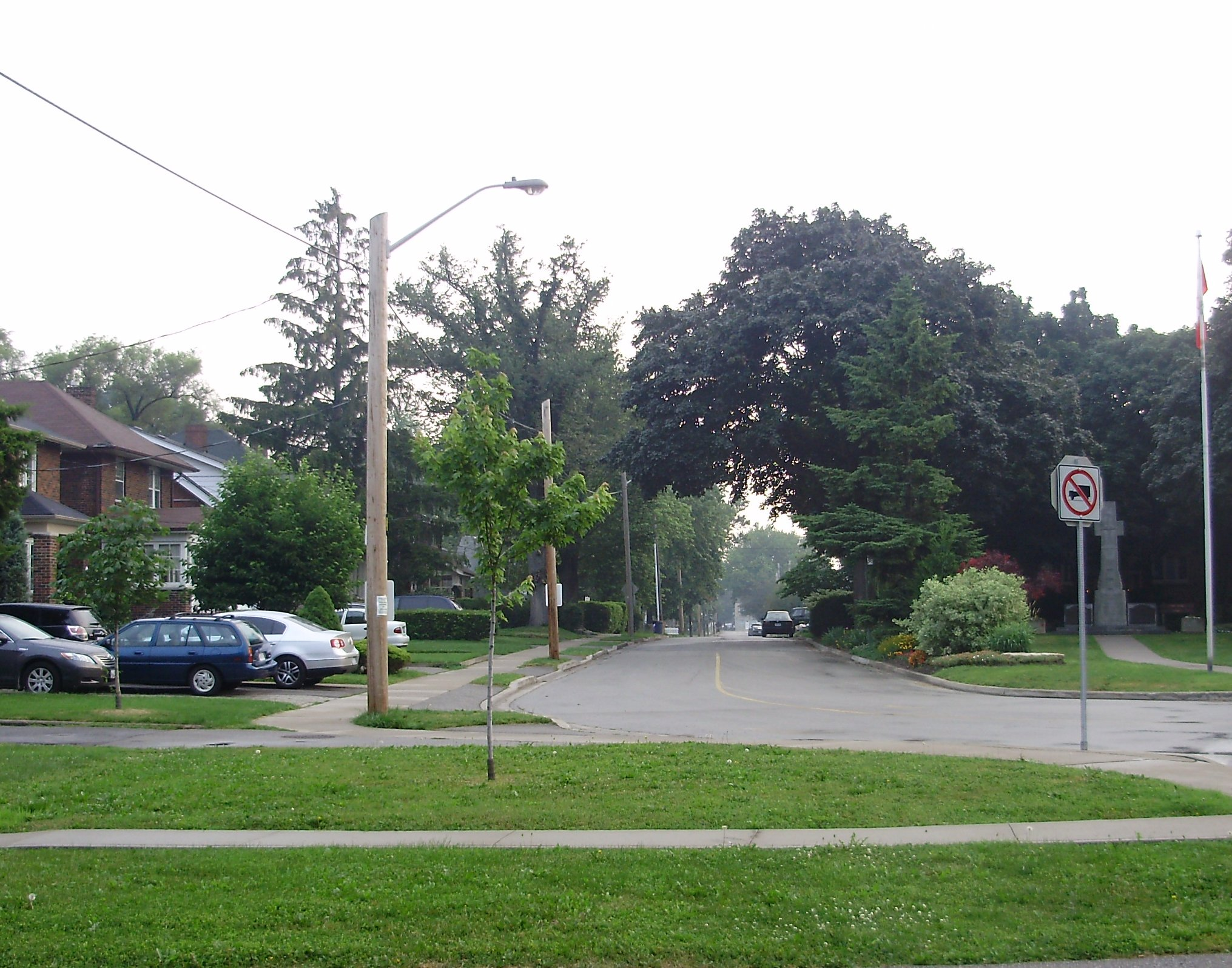 Looking north along Queens Avenue in Mimico, Ontario, Canada, a former independent town and neighbourhood of Toronto. The Mimico war memorial in Vimy Ridge Park is visible on the right side of the photograph.